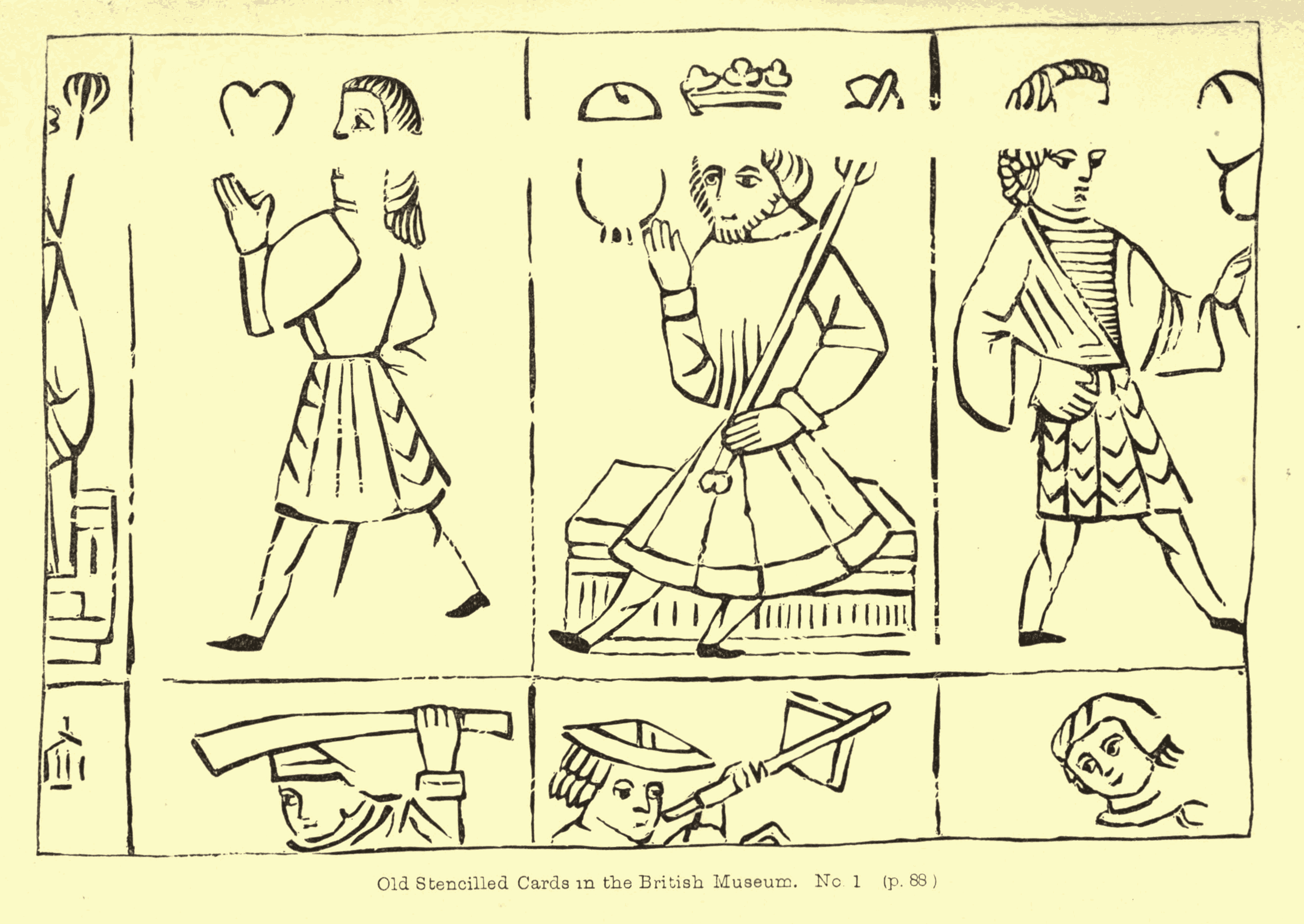 Illustration from the book given under "Source"